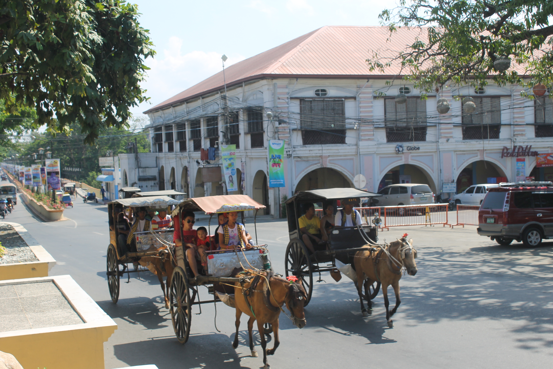 Horse carriages in Vigan City